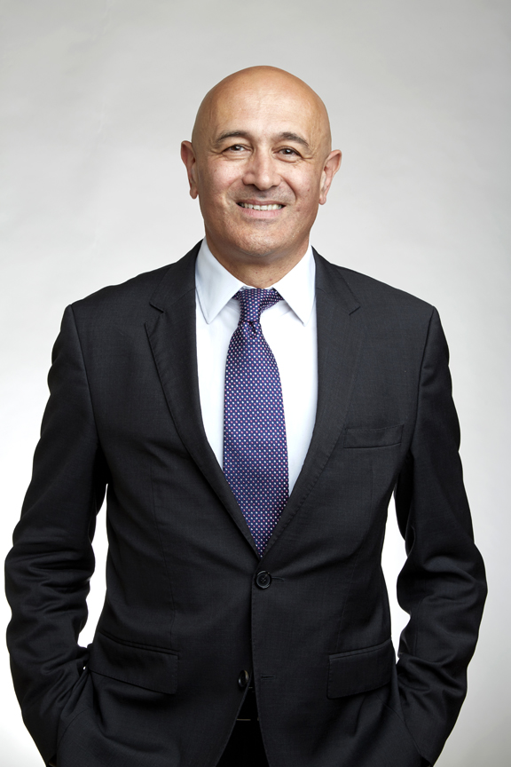 Jim Al-Khalili is a British theoretical physicist, author and broadcaster at the University of Surrey Attribution: The Royal Society